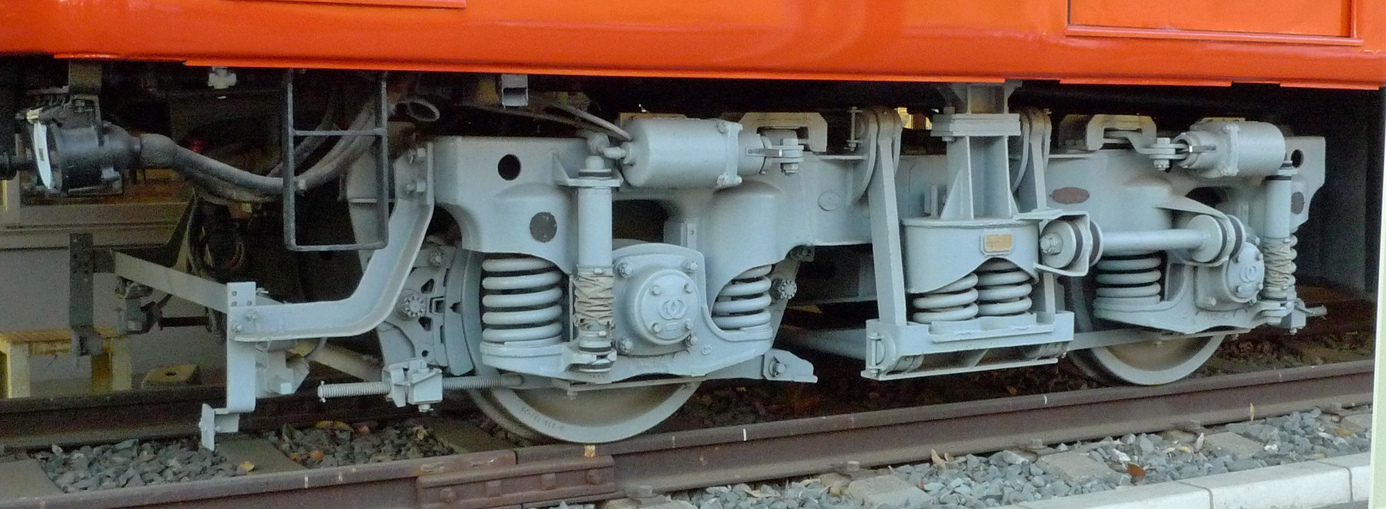 Keisei moha 3004 KS-114 Truck.